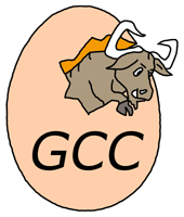 "Copyright (C) Free Software Foundation, Inc., 51 Franklin St, Fifth Floor, Boston, MA 02110, USA. Verbatim copying and distribution of this entire article is permitted in any medium, provided this notice is preserved."